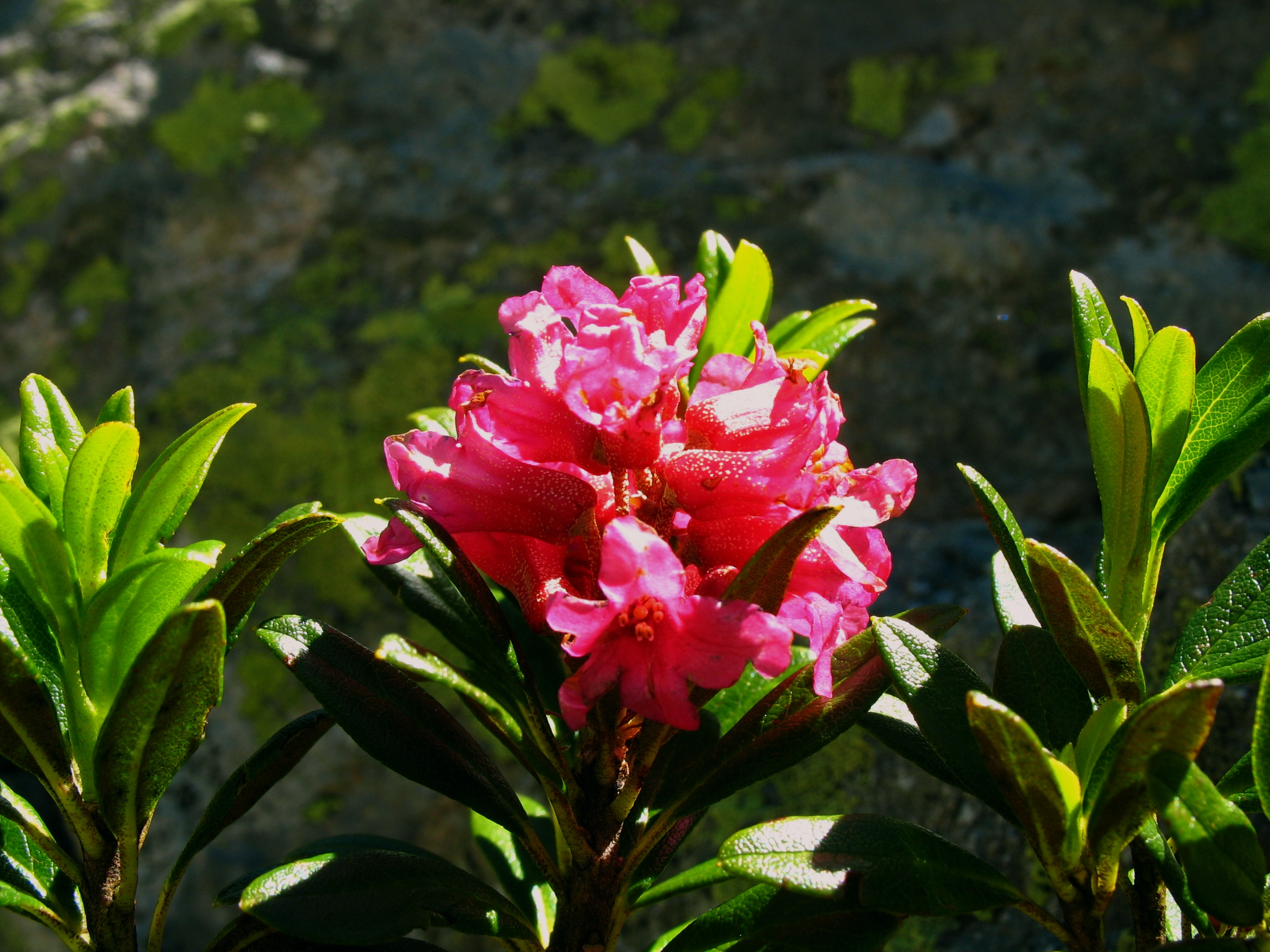 Rhododendron ferrugineum on the Aiguilles Rouges, Alps, France.